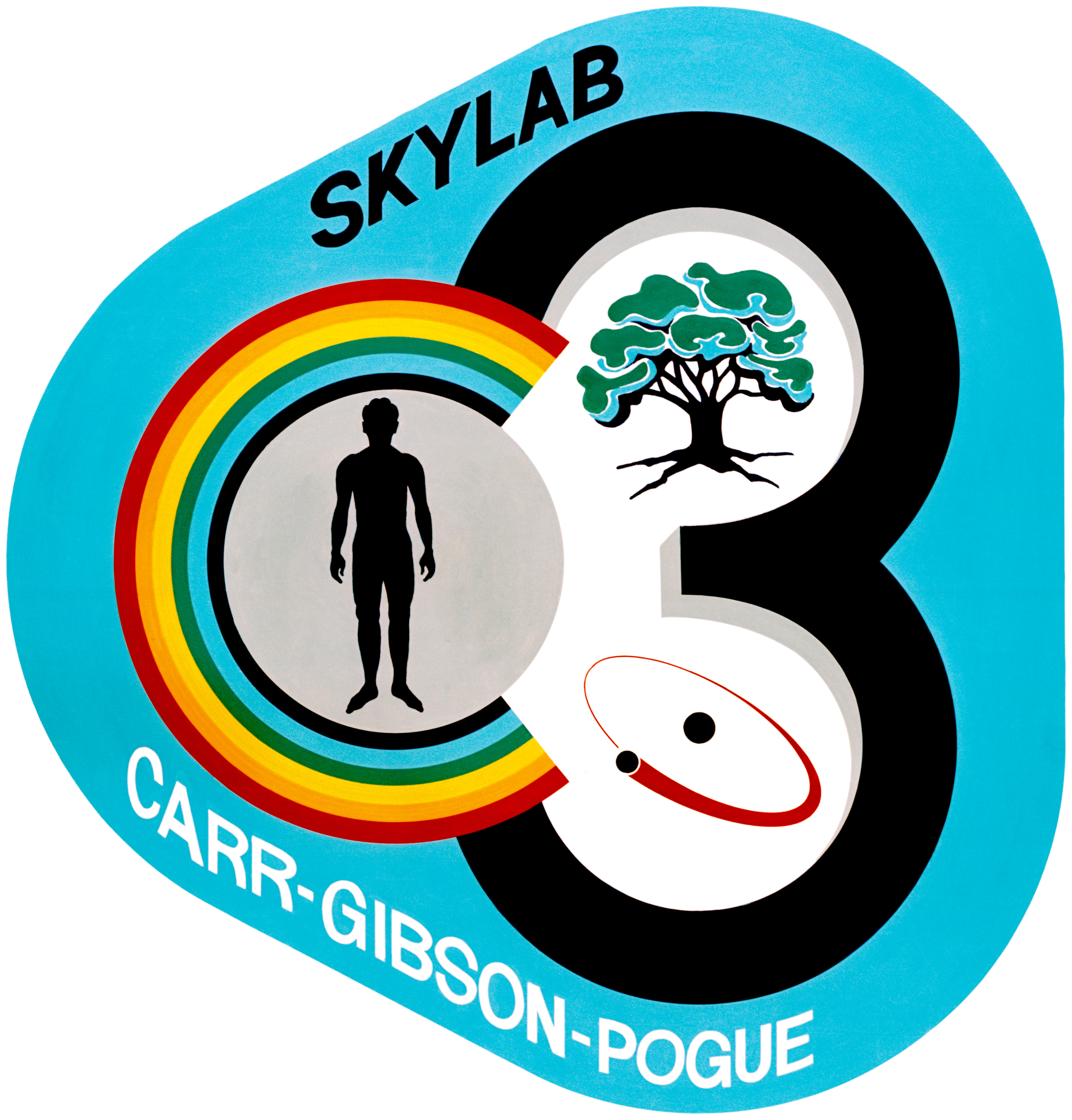 This is the emblem for the third manned Skylab mission. It will be a mission of up to 56 days. Skylab is an experimental space station consisting of a 100-ton laboratory complex in which medical, scientific and technological experiments will be performed in Earth orbit. The members of the crew will be astronaut Gerald P. Carr, commander; scientist-astronaut Edward G. Gibson, science pilot; and astronaut William R. Pogue, pilot. The symbols in the patch refer to the three major areas of investigation proposed in the mission. The tree represents man's natural environment and relates directly to the Skylab mission objectives of advancing the study of Earth resources. The hydrogen atom, as the basic building block of the universe, represents man's exploration of the physical world, his application of knowledge, and his development of technology. Since the sun is composed primarily of hydrogen, it is appropriate that the symbol refers to the solar physics mission objectives. The human silhouette represents mankind and the human capacity to direct technology with a wisdom tempered by regard for his natural environment. It also directly relates to the Skylab medical studies of man himself. The rainbow, adopted from the Biblical story of the flood, symbolizes the promise that is offered man. It embraces man and extends to the tree and the hydrogen atom emphasizing man's pivotal role in the conciliation of technology with nature.